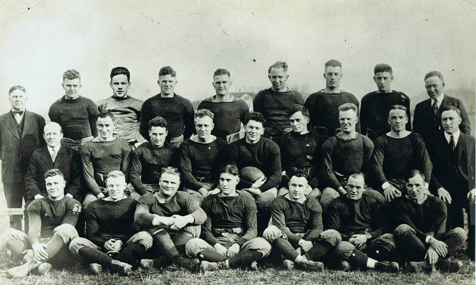 American football team Green Bay Packers in 1920. From left to right: Delloye, Powers, Dwyer, Klaus, Nichols, Rosenow, Wilson, Sauber, N. Murphy, Tebo, Petcka, Gavin, Wheeler, Lambeau, Ladrow, Wagner, Dalton, F. Jonet, Zoll, Leaper, Zoll, Martell, McLean, Abrams, Medley